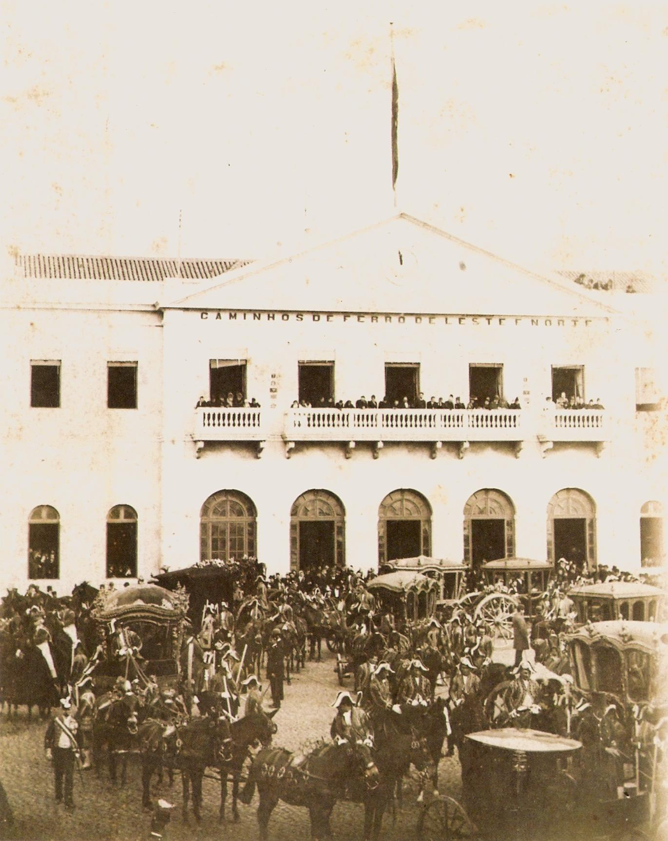 Funeral of Emperor Pedro II in Lisbon, 1891.